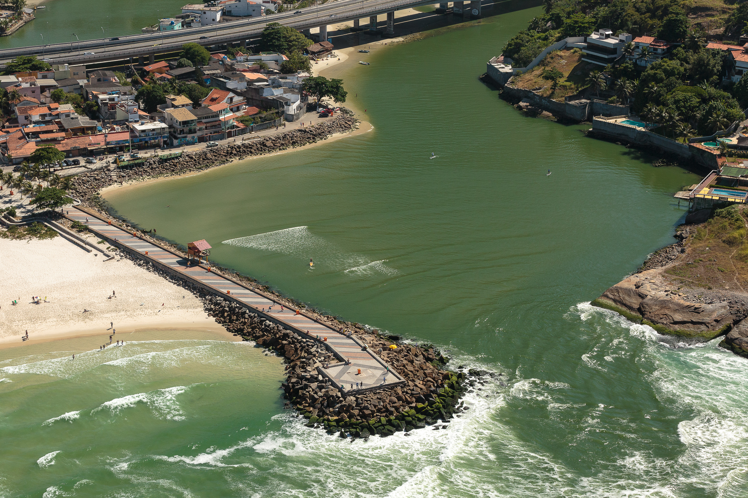 Vista aérea do Quebra Mar, localizado na Barra da Tijuca na cidade do Rio de Janeiro